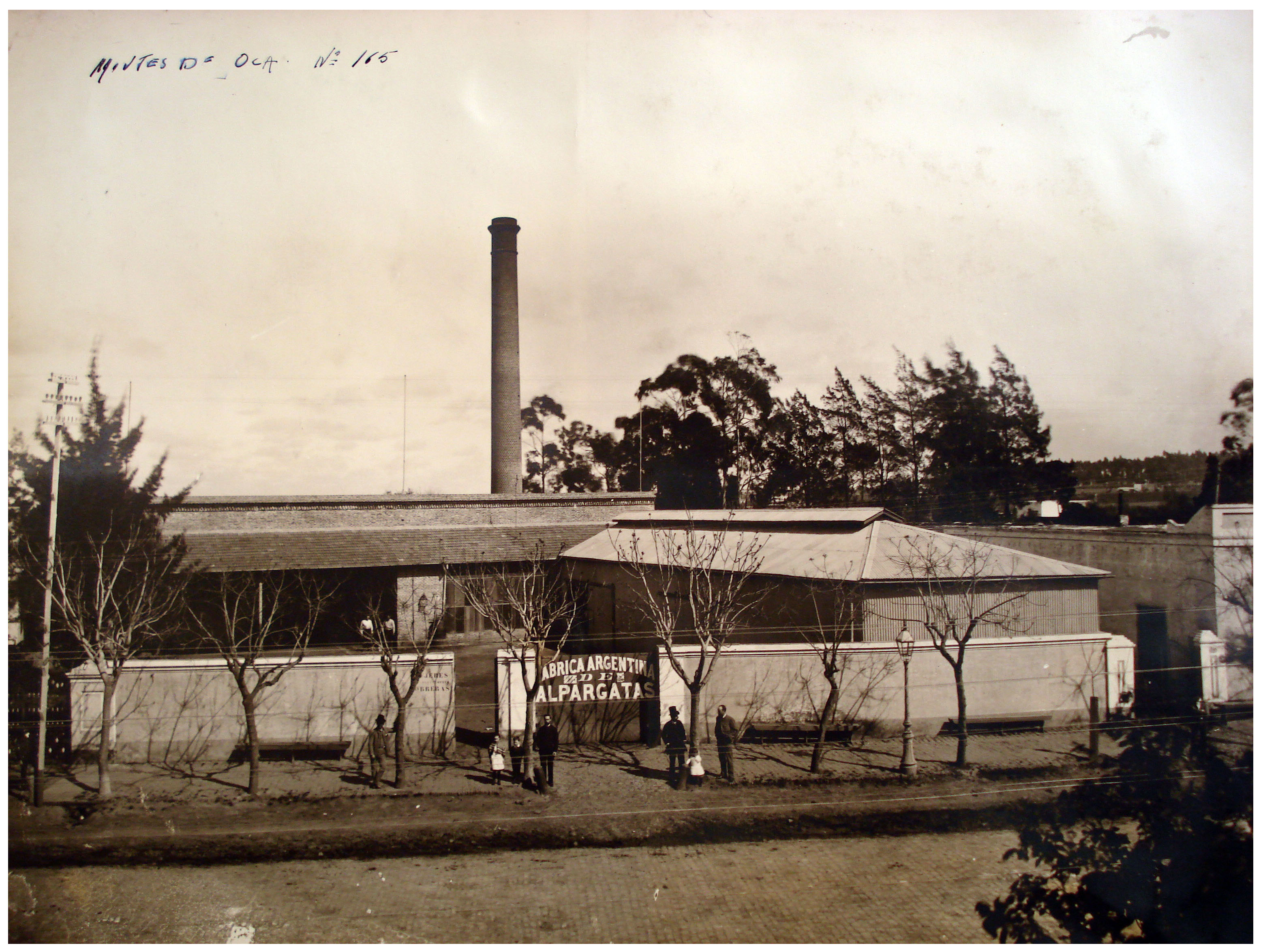 Argentine textile manufacturer "Alpargatas" factory, located in the Barracas district of Buenos Aires.